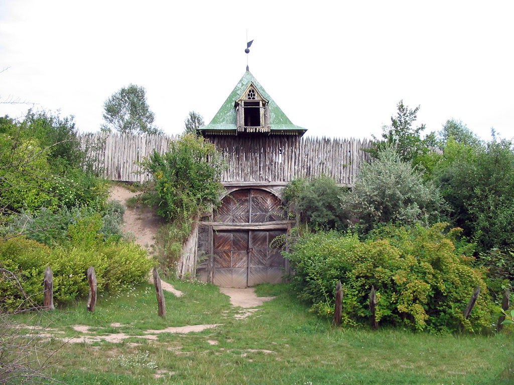 A 17-18 century Cossack fortress in Pereiaslav-Khmelnytskyi, Ukraine.